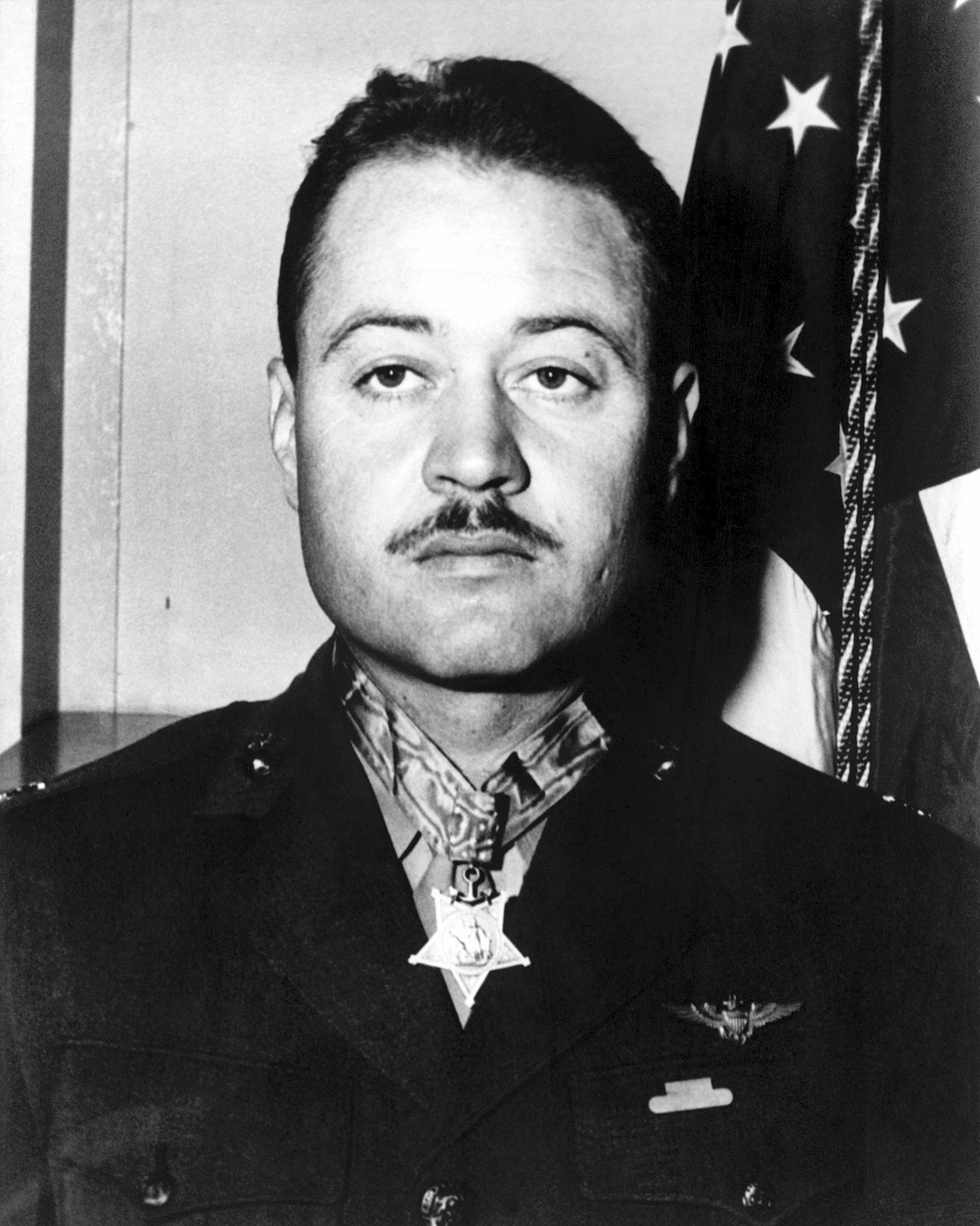 Official Portrait of US Marine Corps (USMC) Lieutenant Colonel (LTC) Gregory "Pappy" Boyington, Commander, Marine Fighter Squadron 214 (VMF-214) "Black Sheep" taken at Marine Corps Headquarter, Washington D.C., October 5, 1945. LTC Boyington was awarded the Medal of Honor and was an Ace Pilot credited with 28 kills.